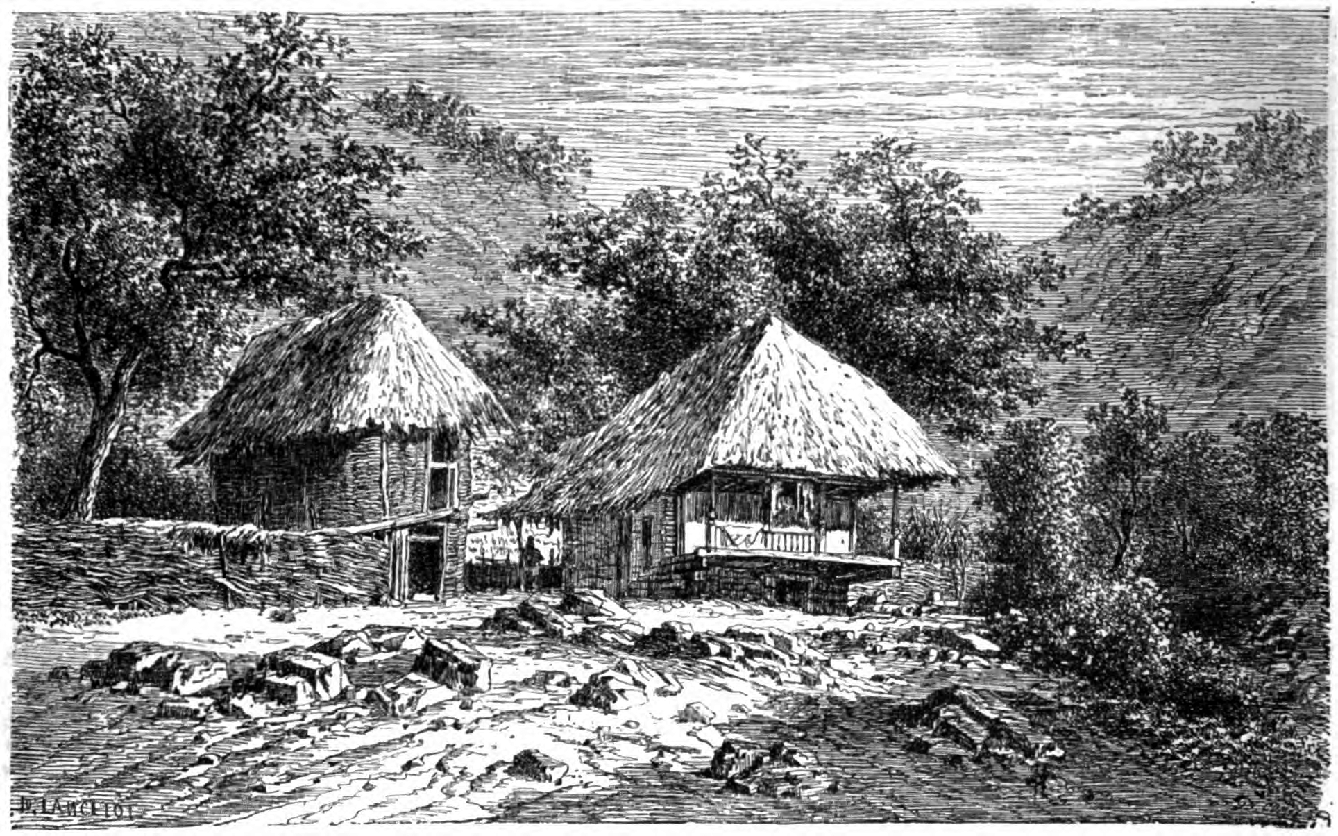 Une maison à Şuici ("A House in Şuici"), drawing from a trip through Wallachia.